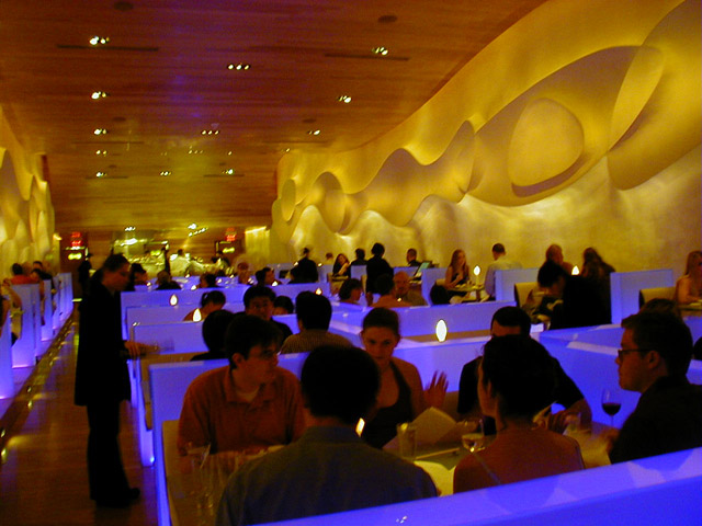 Photograph made by Michael C. Berch (User:MCB) on 2003-07-03. Caption says this particular Morimoto Restaurant is in Philadelphia.